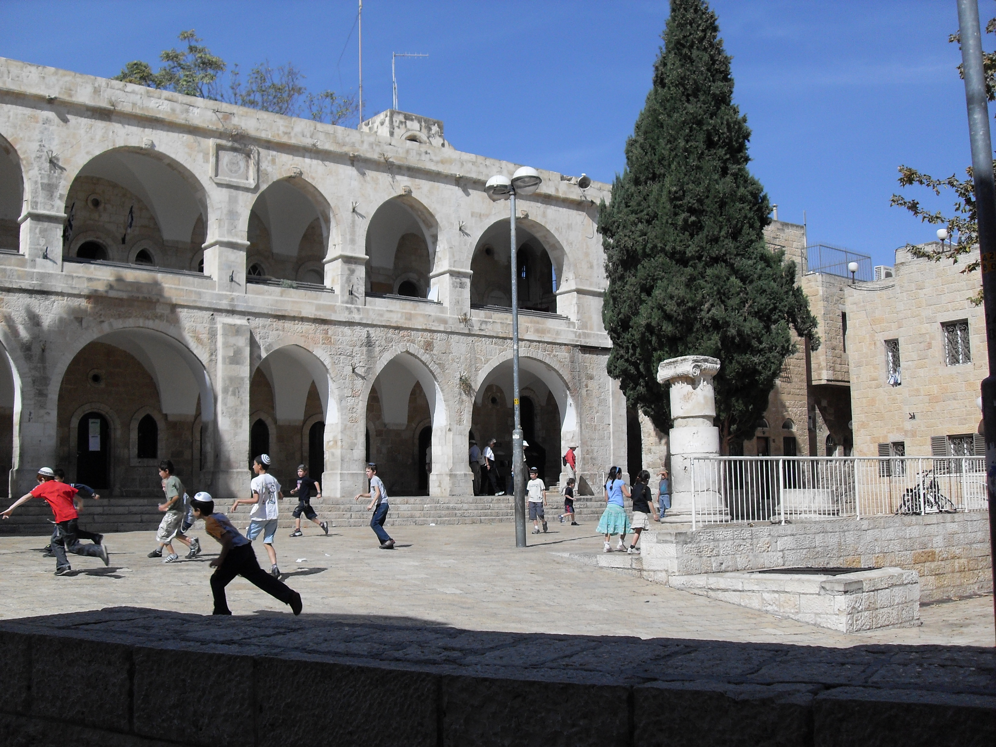 Old Jerusalem Batey Mahase Square children playing